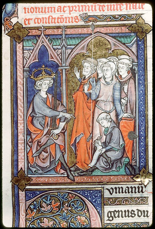 Master Honoré Decretals of Gratian. 1288. Bibliothèque municipale de Tours